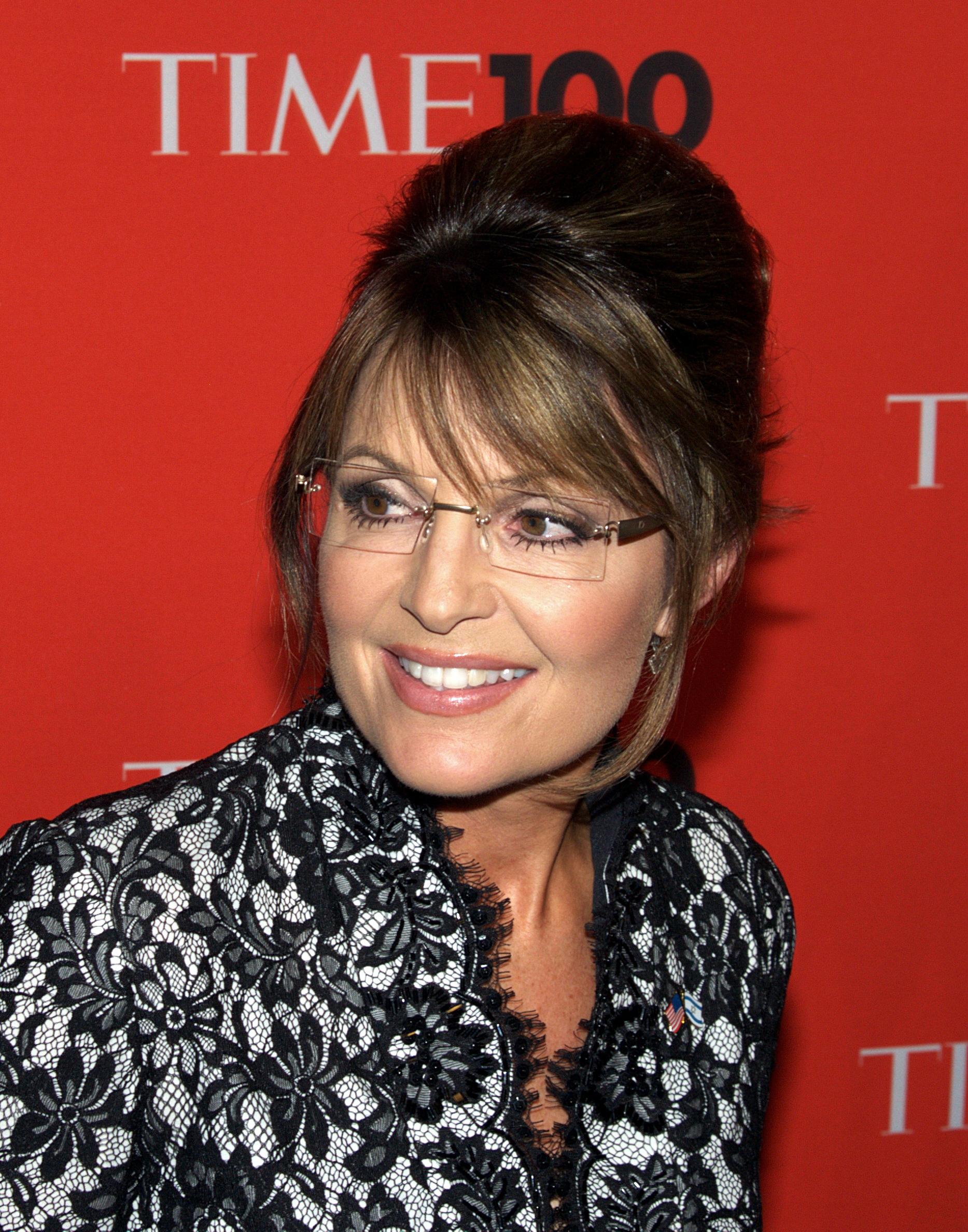 Sarah Palin at the Time 100 Gala in Manhattan on May 4, 2010